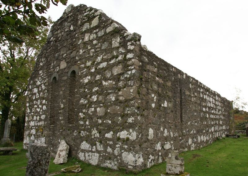 Kirkton Chapel, Craignish, Argyll and Bute, Scotland.